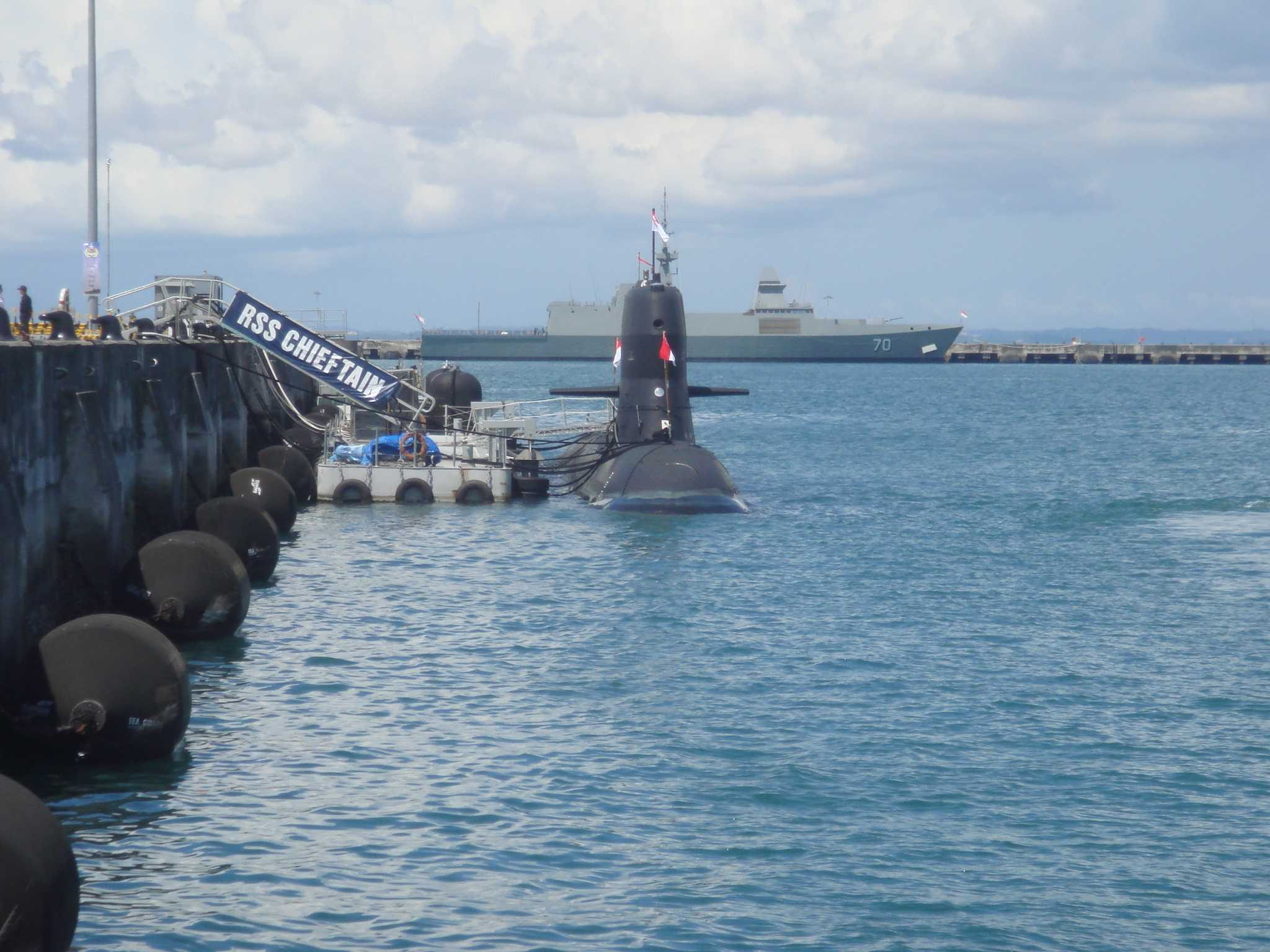 RSS Chieftain at Chingi Base During Navy open house2007年海军开放日时停泊在樟宜军港的新加坡酋长号潜艇